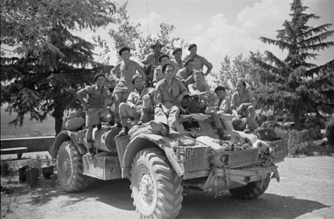 NZ Div Cav Staghound and crew in Castiglione